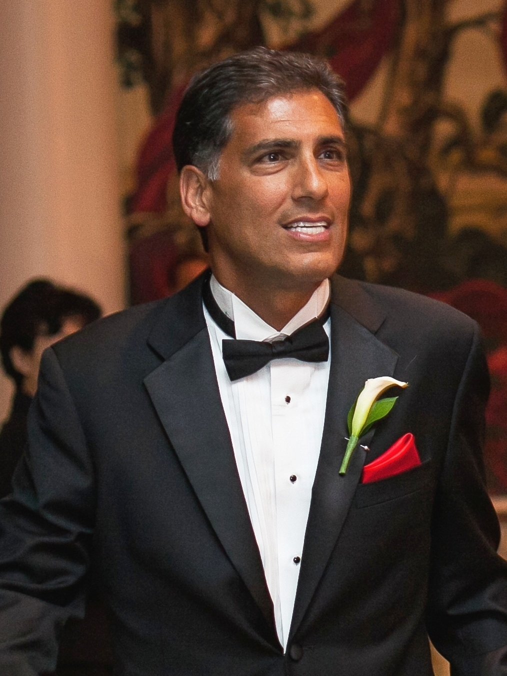 A picture of Cyrus Nowrasteh and Betsy Giffen Nowrasteh